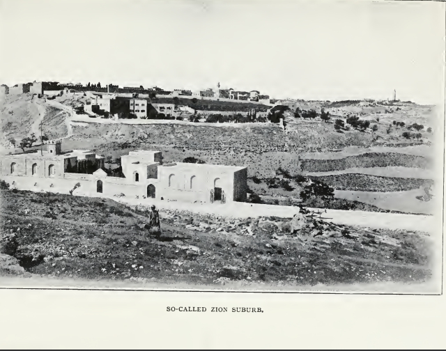 Mt Zion 1903, in the centre the enclosed Protestant Mount Zion Cemetery, left of it the then Gobat School of the Church Missionary Society (after 1957 American Institute of Holy Land Studies, later Jerusalem University College)